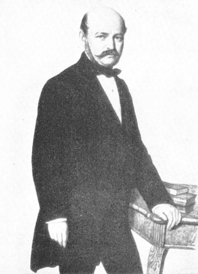 Ignaz Semmelweis standing next to table. 1857 aquarelle by Àgost Canzi